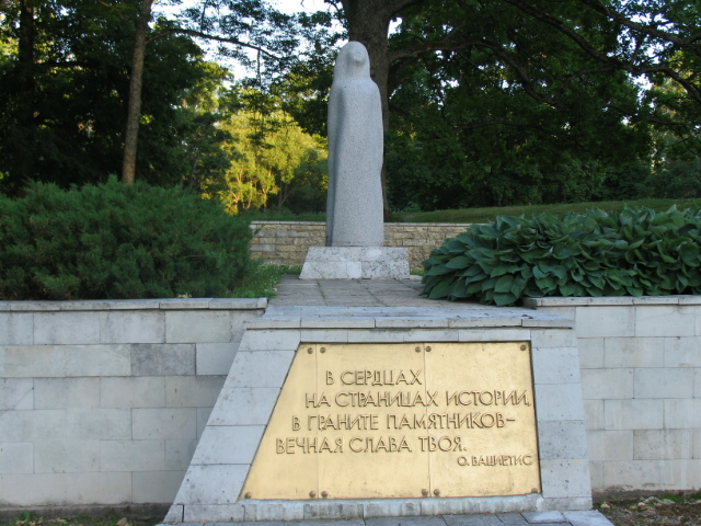 Memorial near The New Castle in Alūksne, Lettland